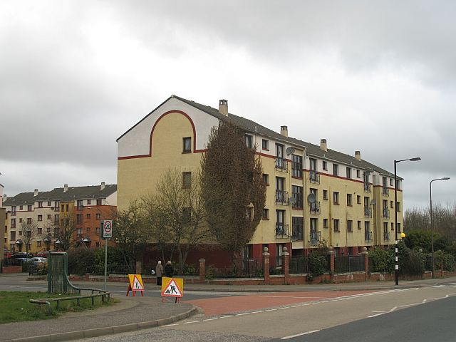 Flats off Clovenstone Road Opposite the Wester Hailes Baptist Church.